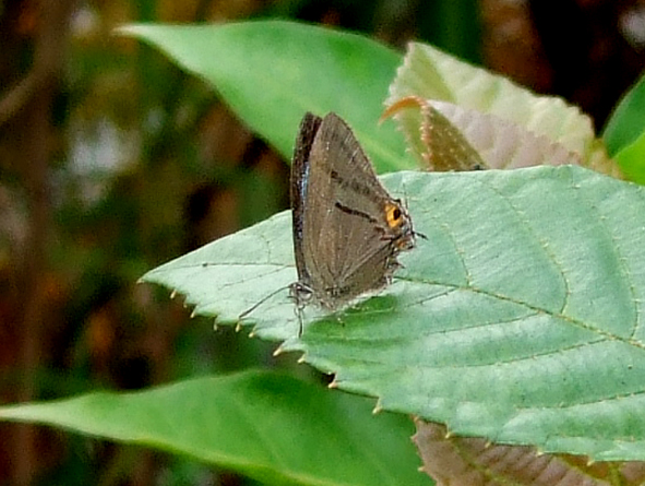 Tajuria igolotiana fumiae, female on Mt. Apo